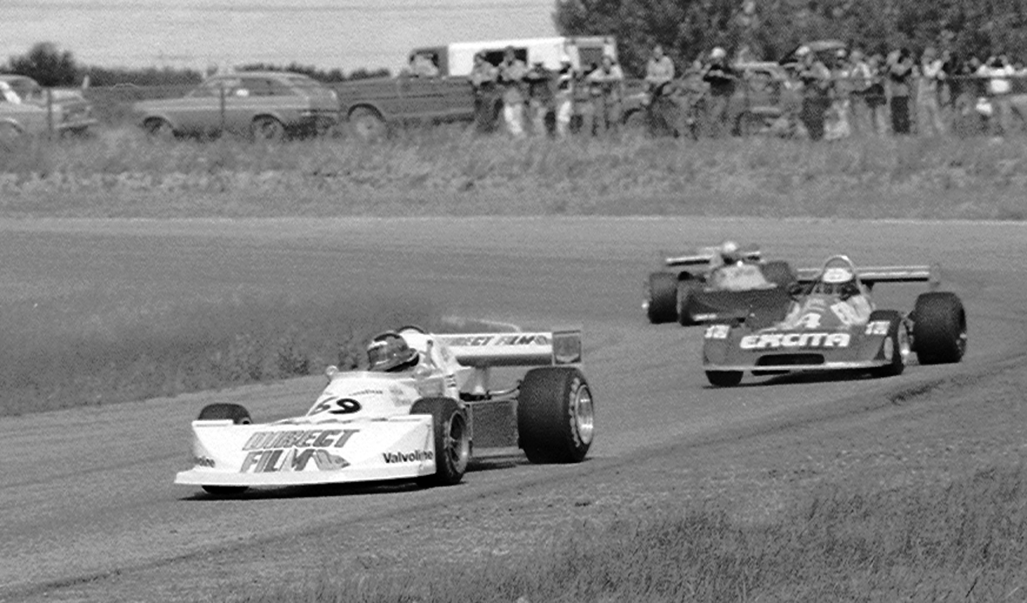 Gilles Villeneuve and Keke Rosberg, Edmonton International Speedway Formula Atlantic race 1977. Photo: Fred Young